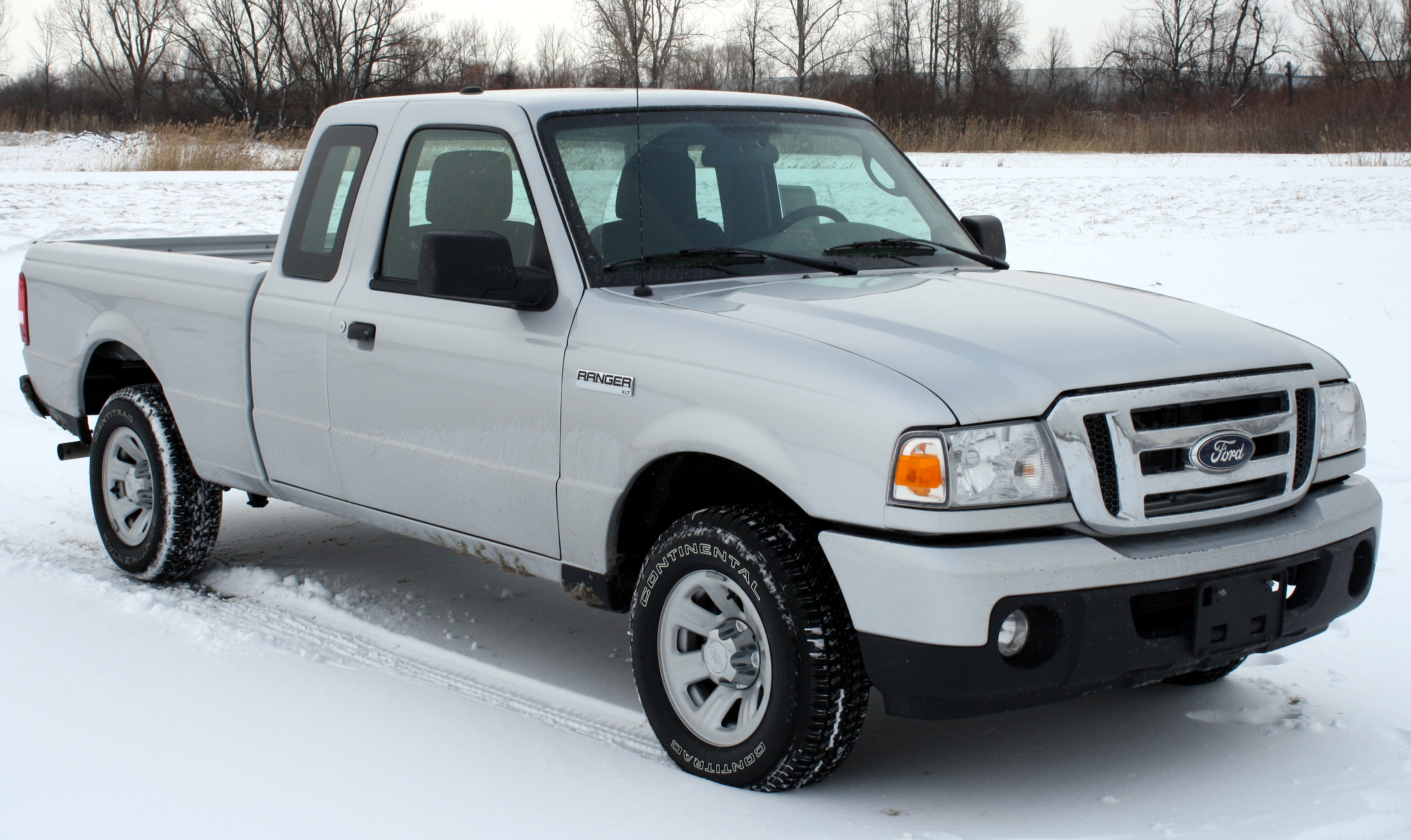 2011 Ford Ranger photographed in USA.